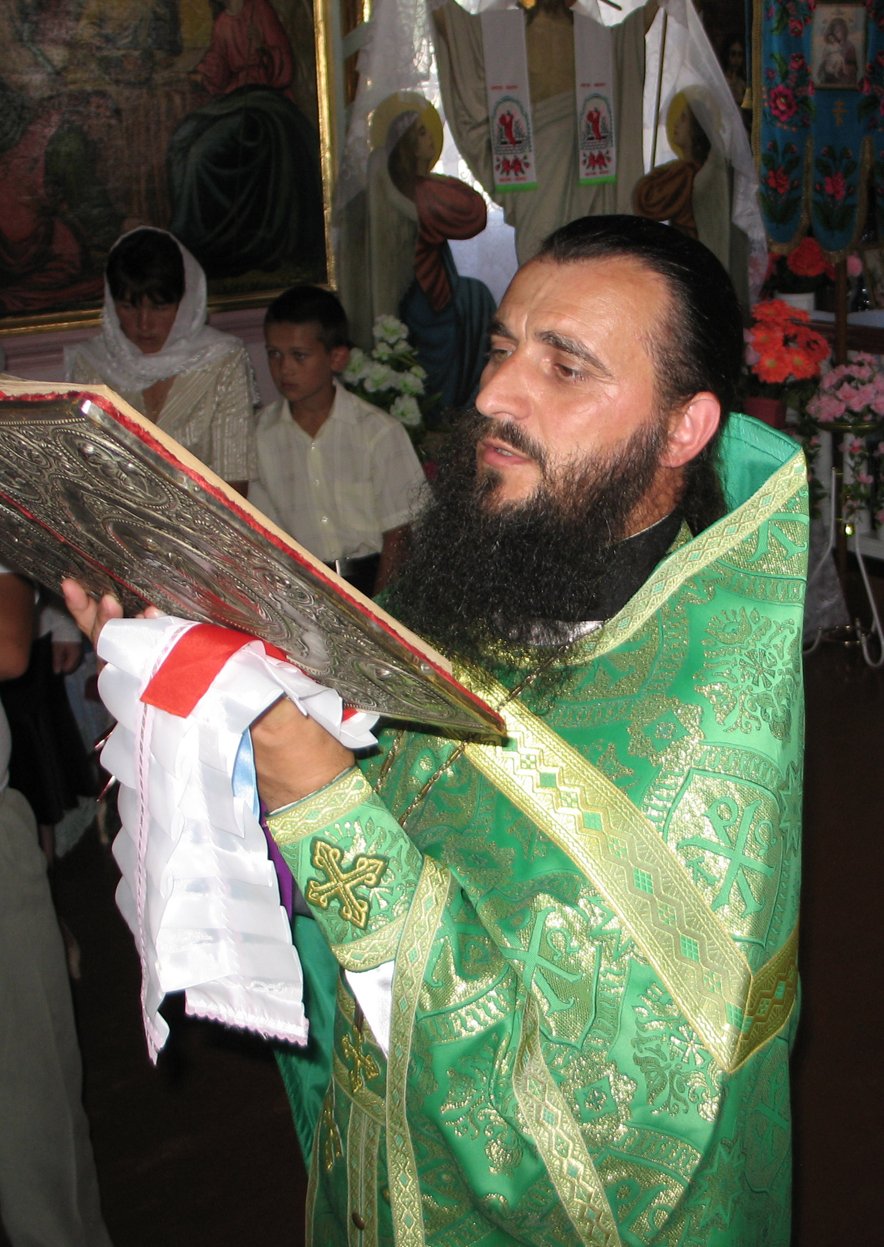 Father Ivan Parypa